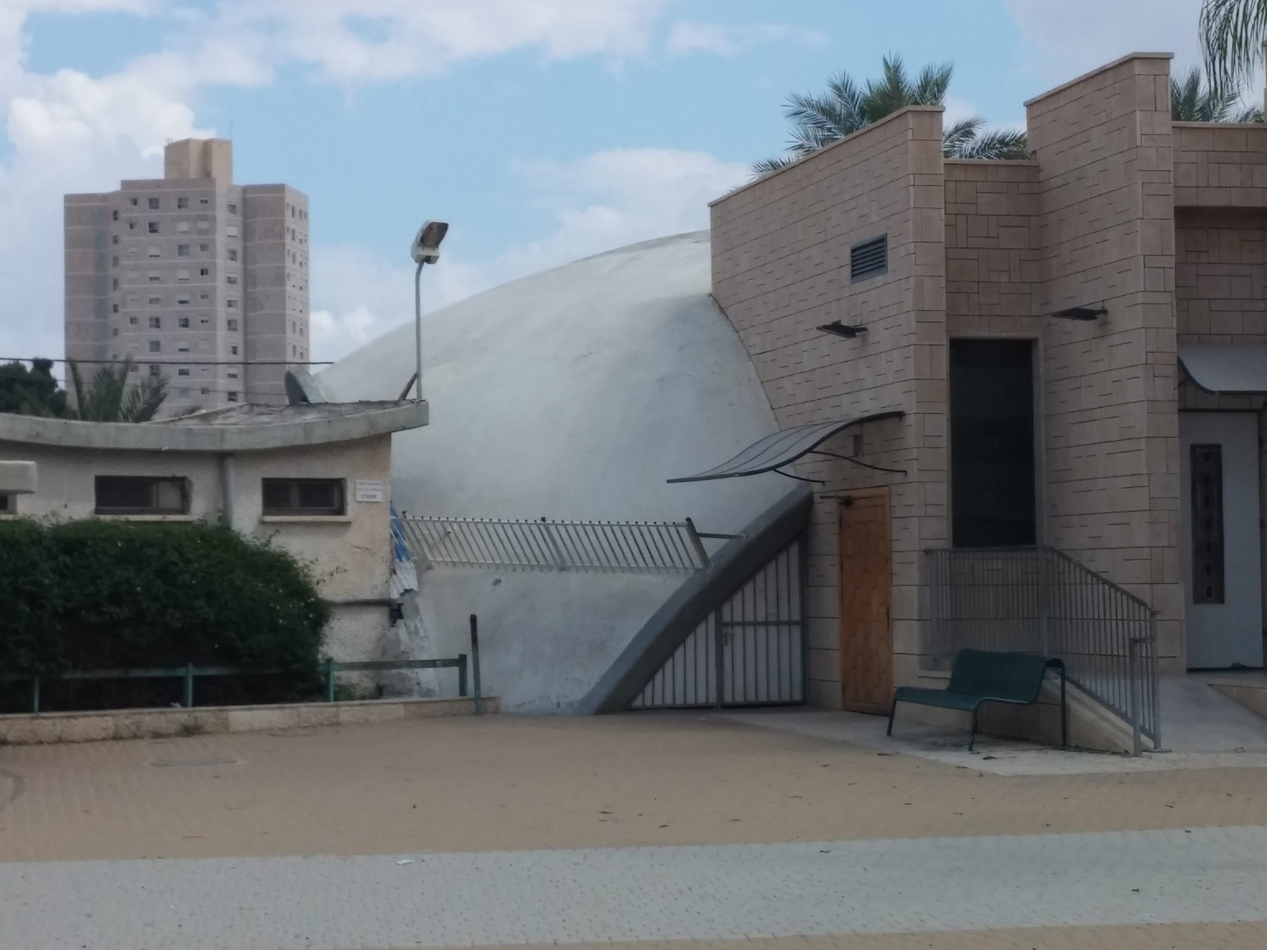 synagouge "Hakippa" in Beersheba, Israel, Part of the original dome roof